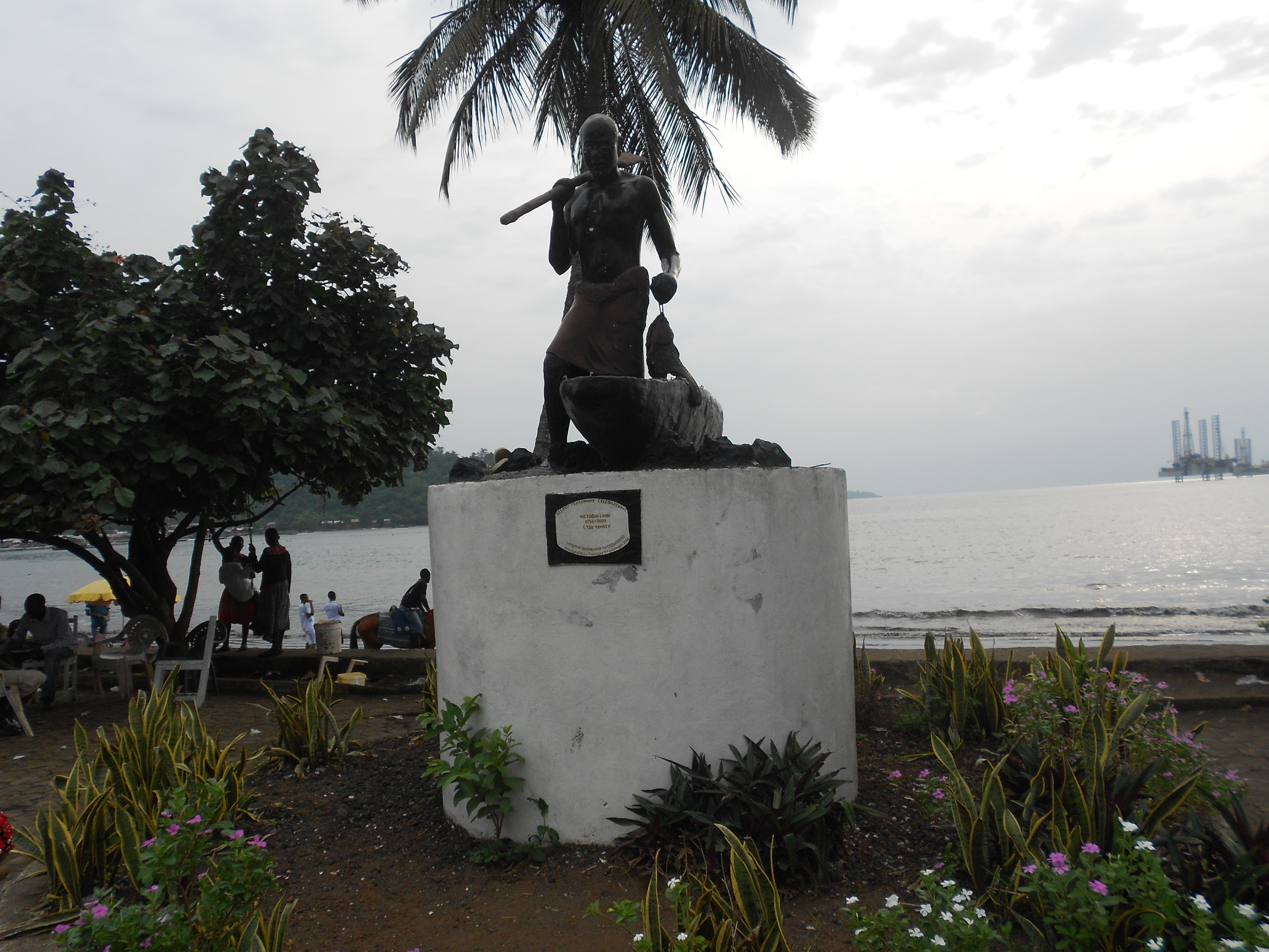 Monument celebrating 150 years of Limbe(victoria).Cameroon.It depicts the culture of the people.